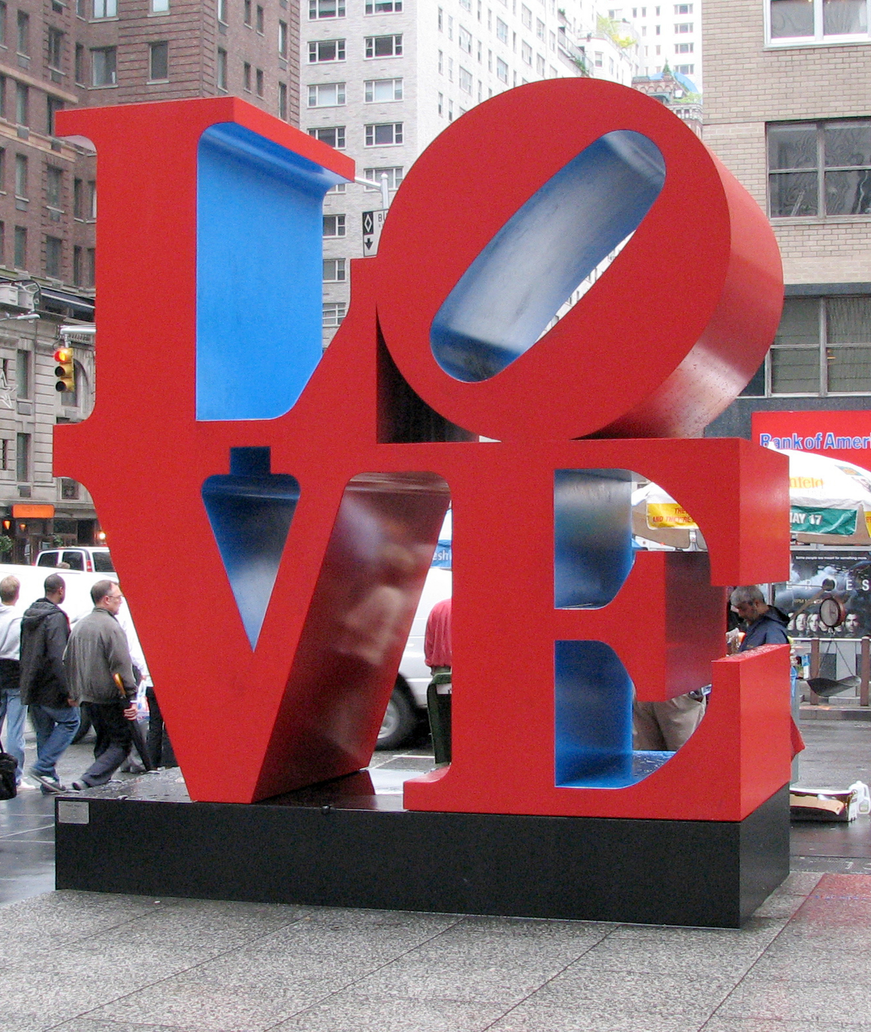 LOVE sculpture by Robert Indiana, on the corner of 6th Avenue and 55th Street in Manhattan, NY.